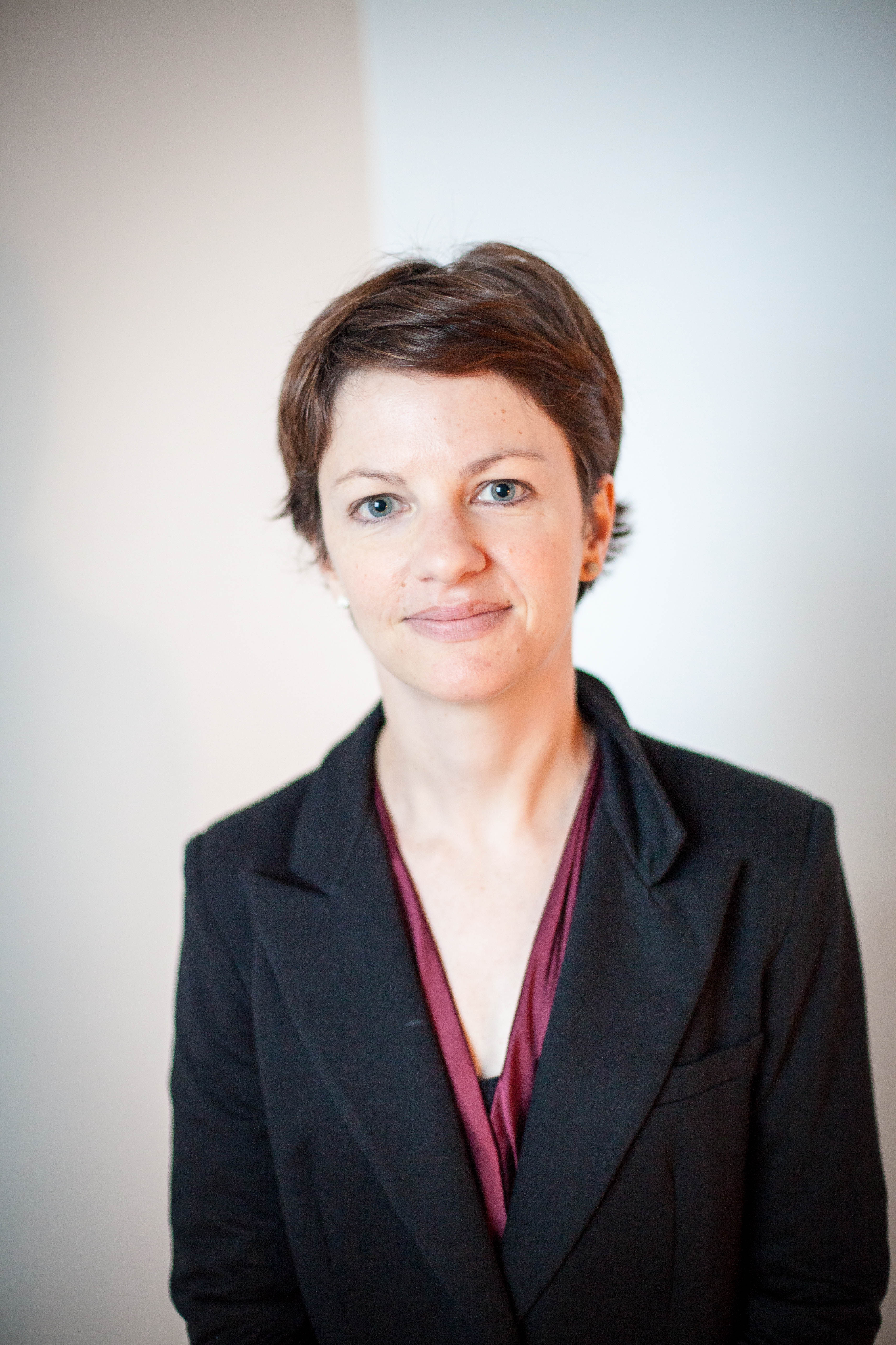 Portrait of Amanda Ripley, author/journalist, at PopTech 2012